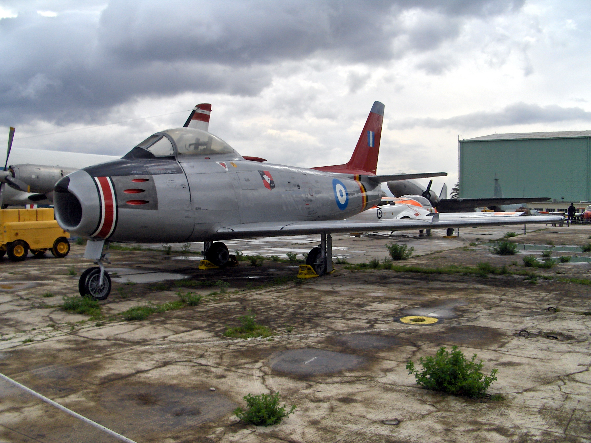 Exhibit at the Hellenic Air Force Museum at Dekelia (Tatoi), Athens, Greece. North American F-86E Sabre